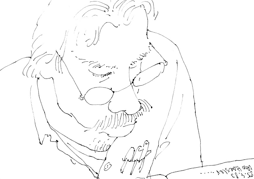 Hand drawing of the german architect and bass player Klaus Kürvers, by Jonas Geist.